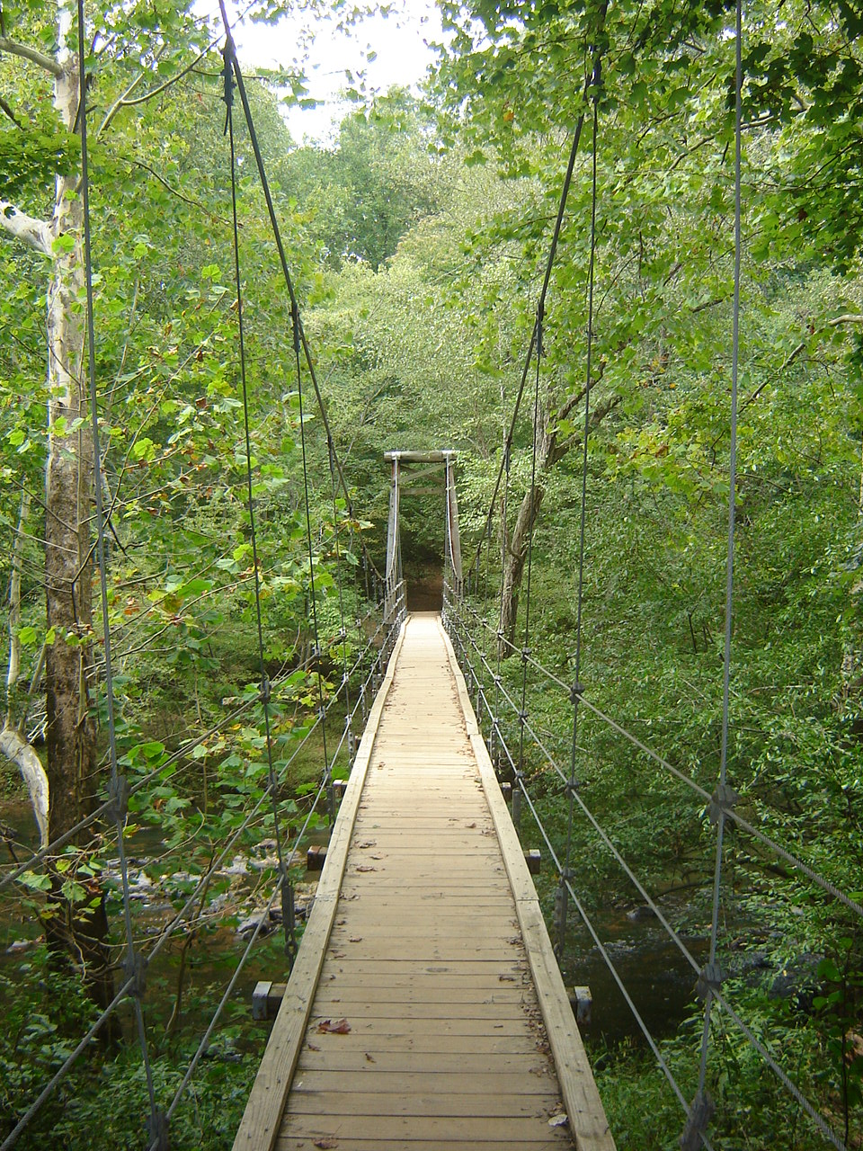 Picture taken by me on 9/16/2006 at the Eno State Park